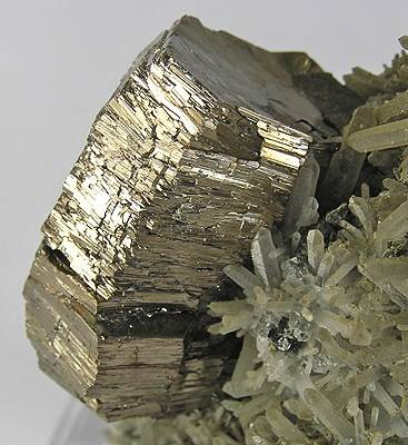 Pyrrhotite, Quartz Locality: Nikolaevskiy Mine, Dal'negorsk (Dalnegorsk; Tetyukhe; Tjetjuche; Tetjuche), Primorskiy Kray, Far-Eastern Region, Russia (Locality at ) Size: 8.2 x 6 x 6 cm. A fantastic 4-cm "ribbon" of pyrrhotite, standing fully exposed on a field of quartz. This super-sharp caterpillar-like composite of hexagonal crystals has a terrific brassy luster to it.